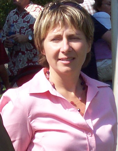 Ann Bourget at Laurentien Borough (Quebec City) Pastoral Festival ("Fête champêtre"), september 8th, 2007.